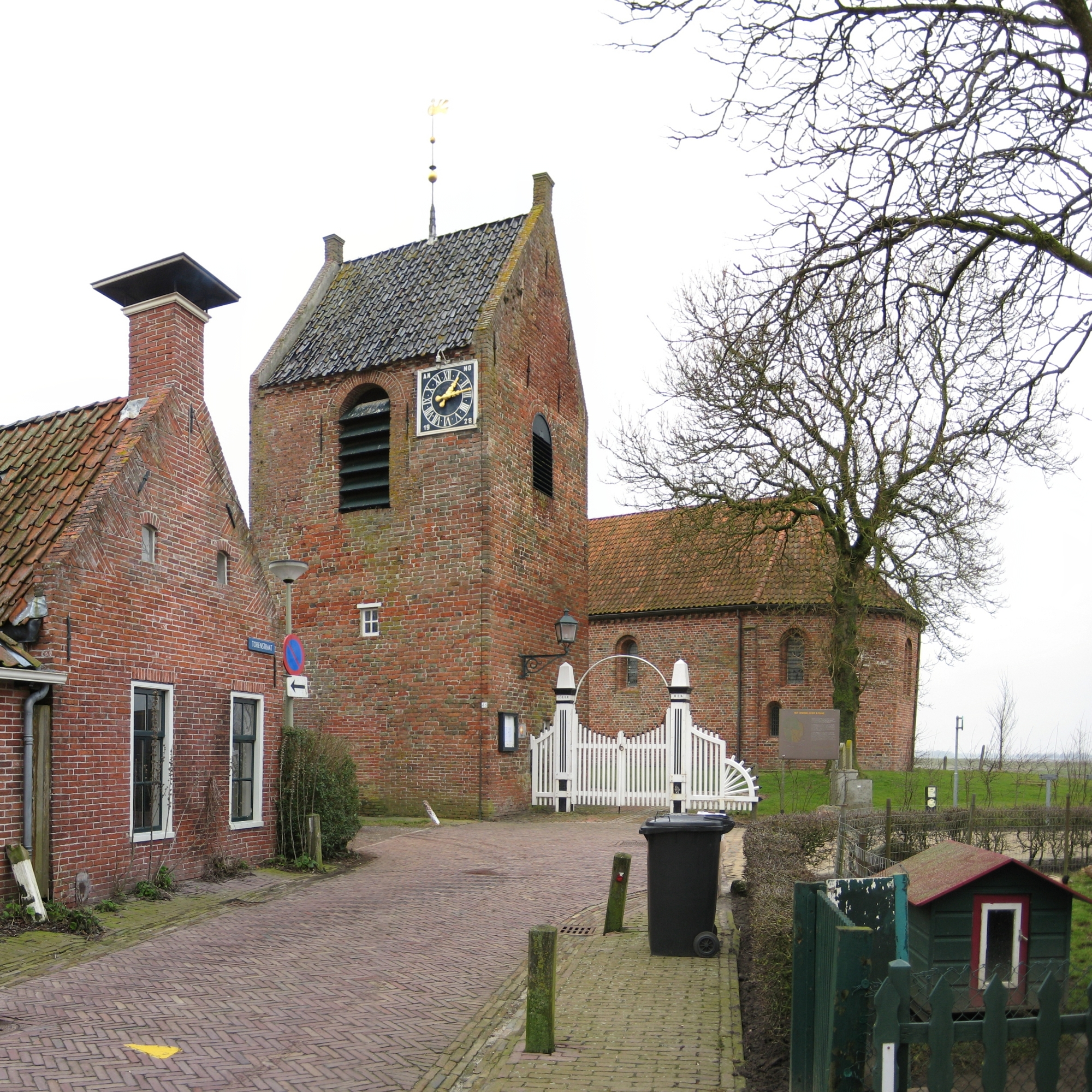 The thirteenth century church tower and church of Ezinge, a village in the Dutch province of Groningen.